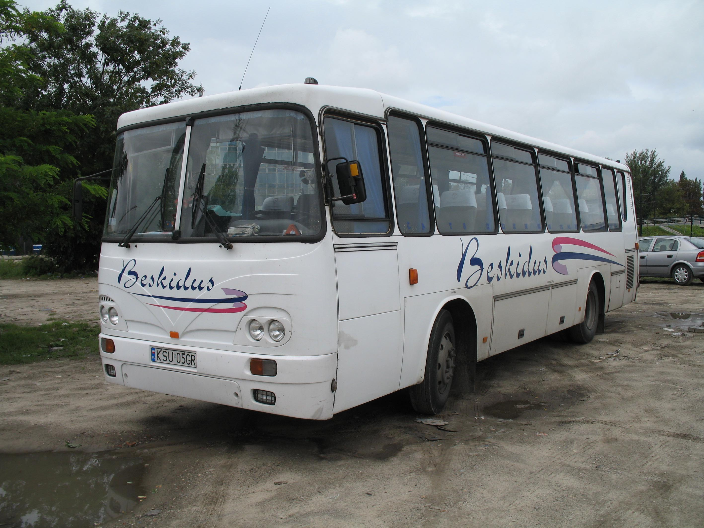 Autosan H9-21 bus in Kraków, Poland. Built 1991, Beskidus Zembrzyce operator.